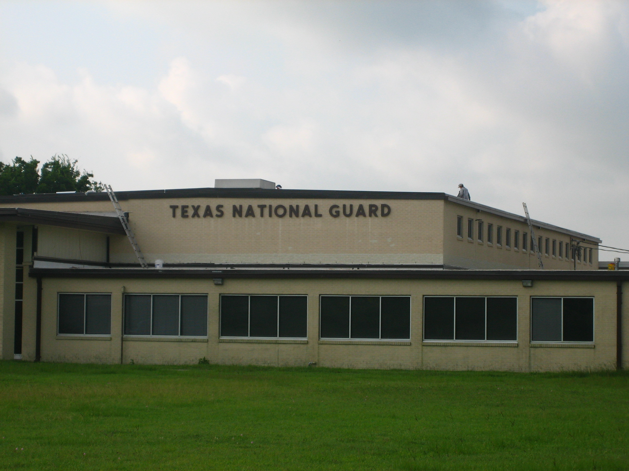 I took photo on July 31, 2008.Billy Hathorn (talk) 00:17, 18 August 2008 (UTC)